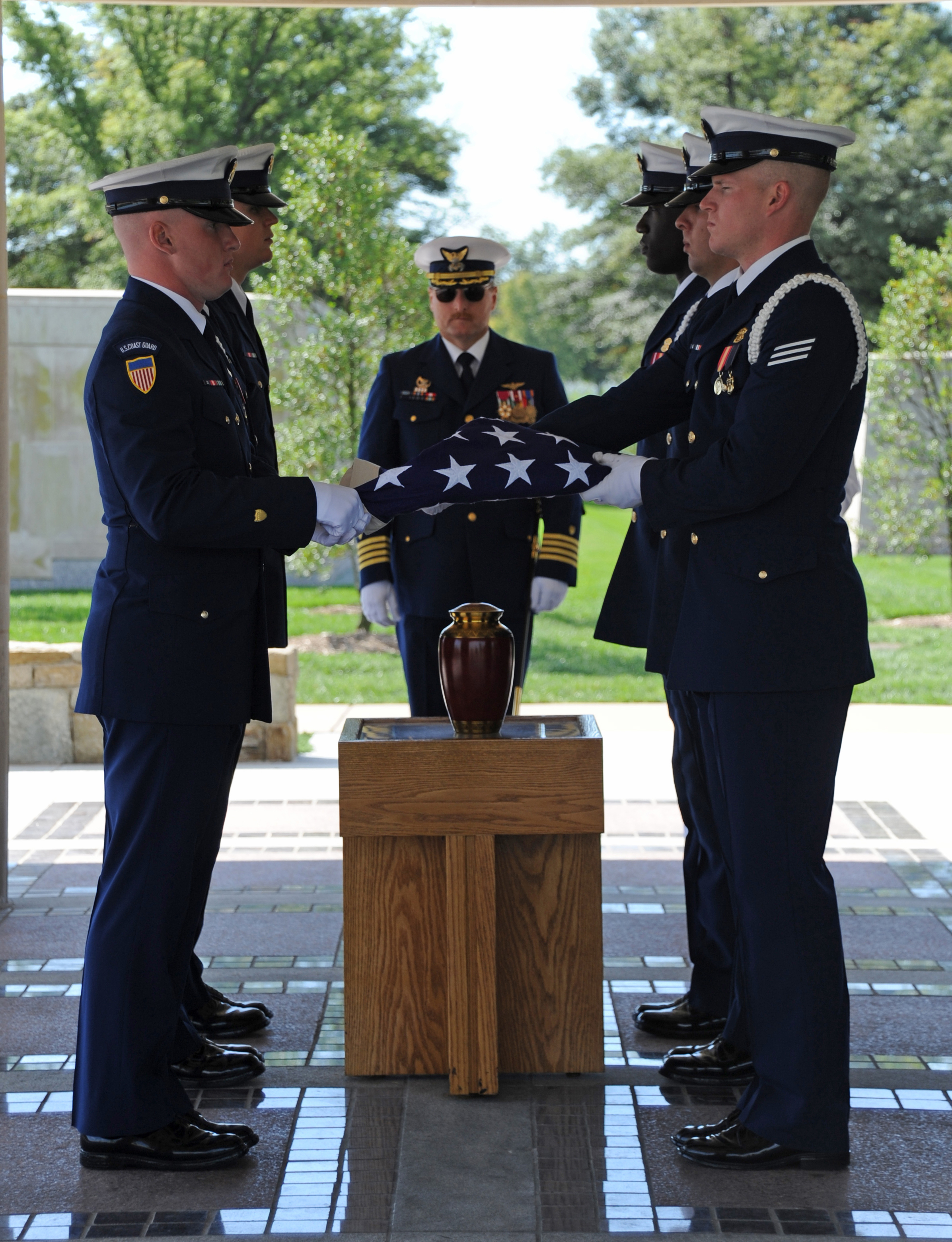 BALTIMORE - Capt. Mark E. Butt, the commanding officer of the Engineering Logistics Command in Baltimore, Md., along with members of the Coast Guard Ceremonial Honor Guard, fold the national ensign above an urn holding Capt. Bobby C. Wilks' ashes during an inurnment ceremony at the Arlington National Cemetery in Washington, D.C., Sept. 29, 2009. Wilks served 30 years in the Coast Guard as a rescue pilot and was a mentor to many service members. U.S. Coast Guard photo by Petty Officer 3rd Class Robert Brazzell.